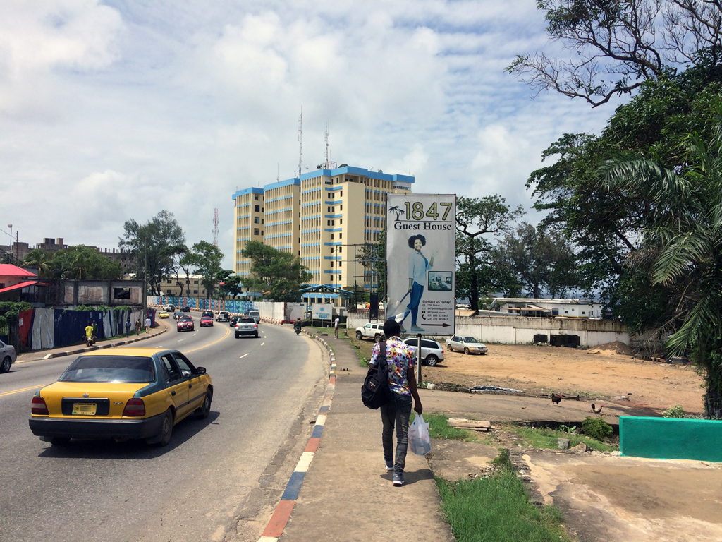 Tubman Boulevard in the Sinkor district of Monrovia with the UN Building in the background.